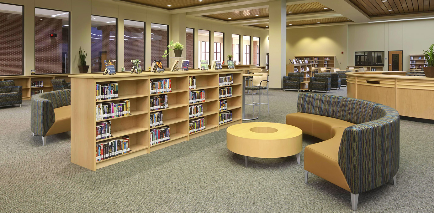 The innovative library features comfortable seating areas and a wide selection of books.